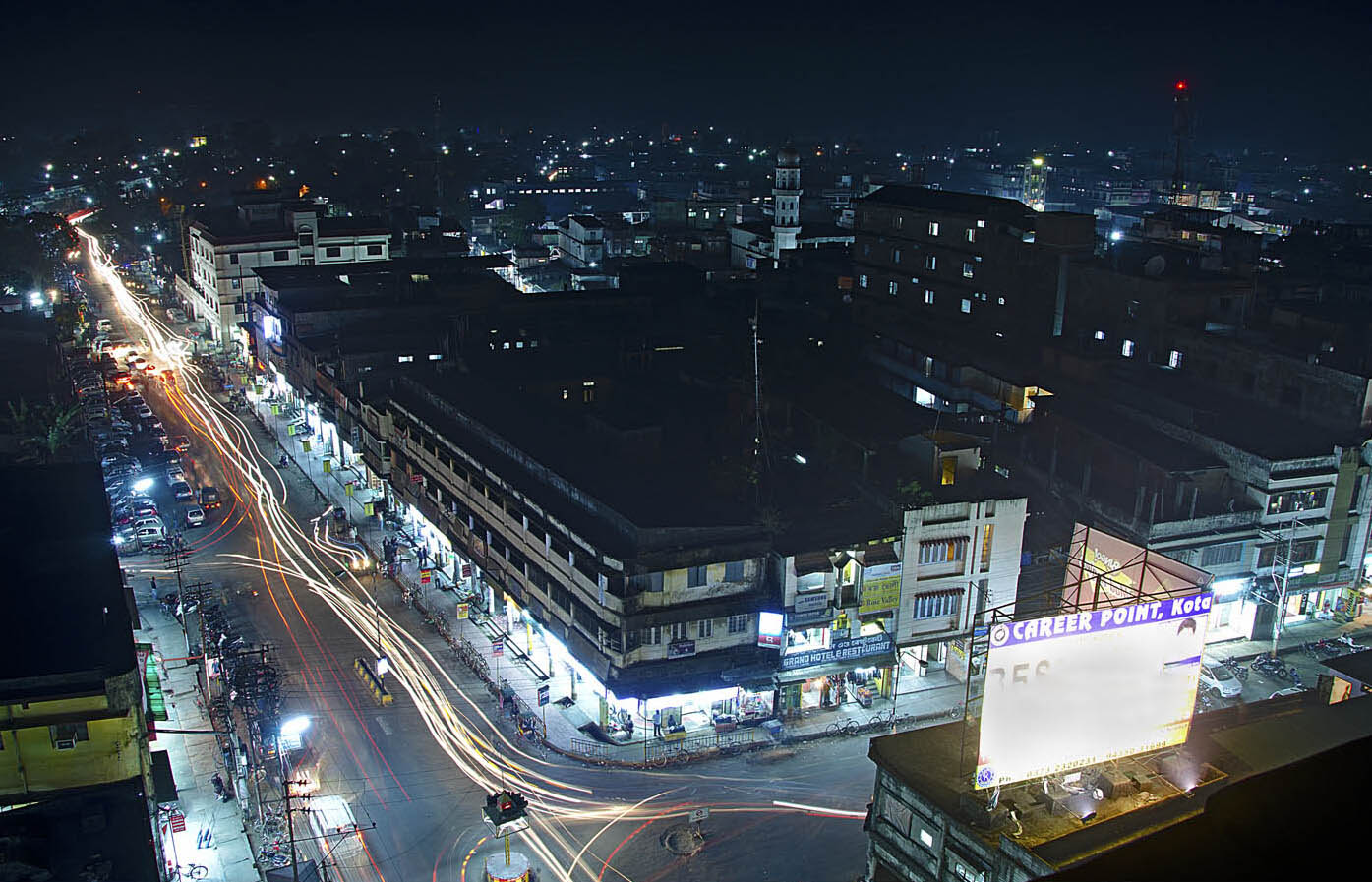 This is the image of Dibrugarh town